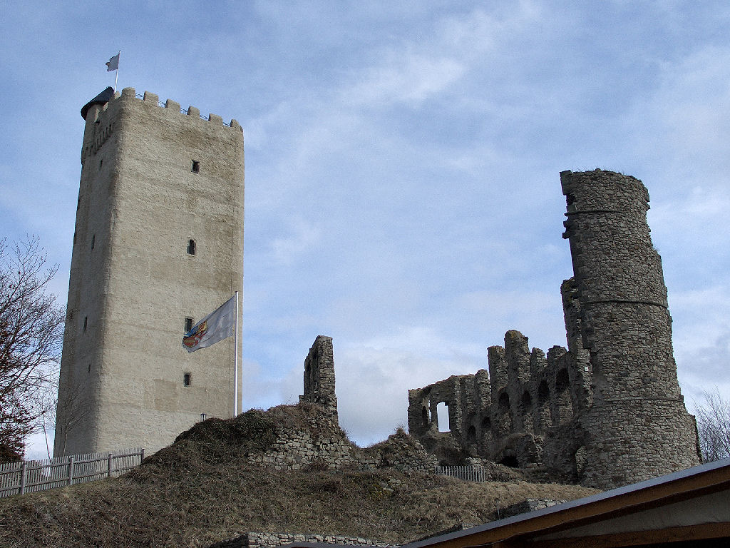 Oblbrueck Castle